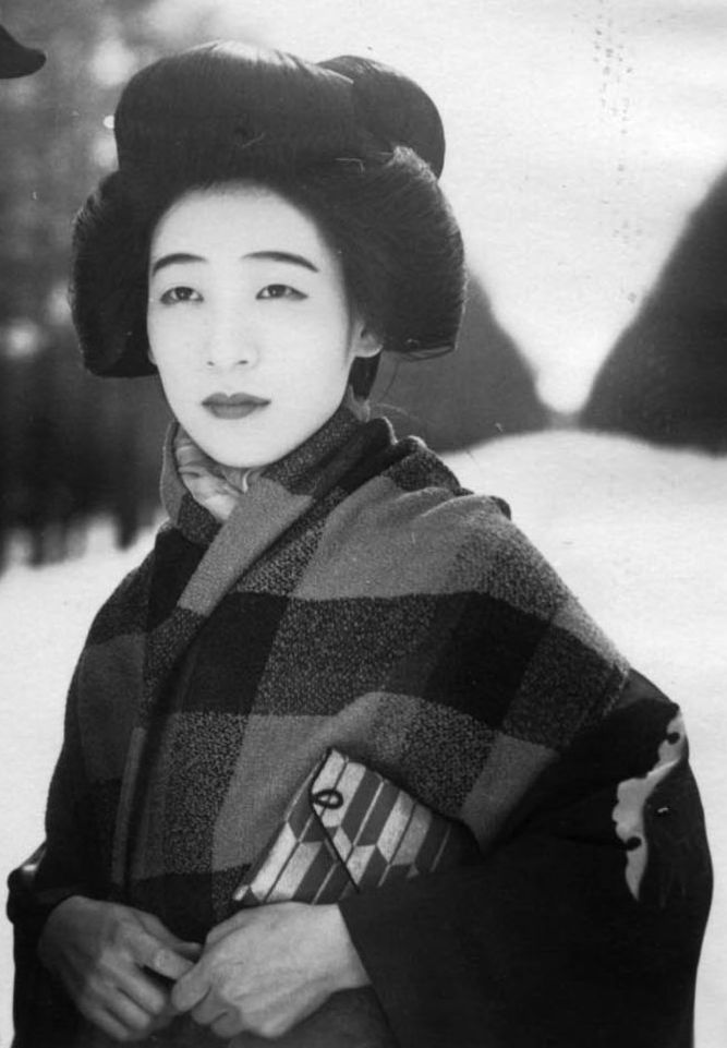 Akiko Chihaya in Nakinureta haru no onna yo (1933)